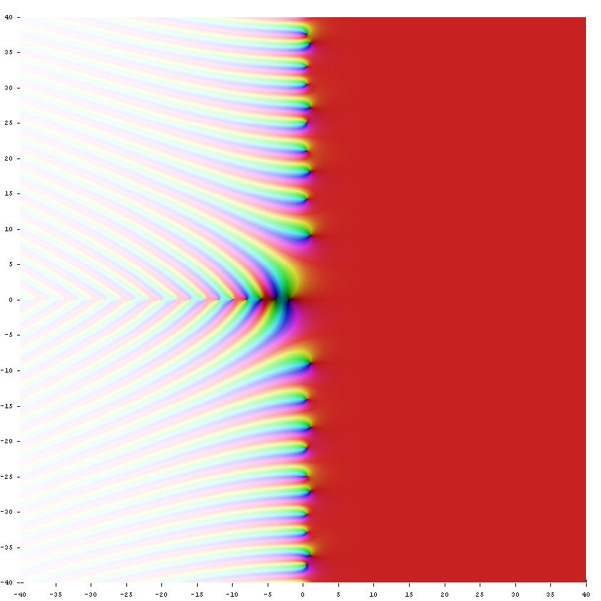 function Dirichlet eta function in the complex plane